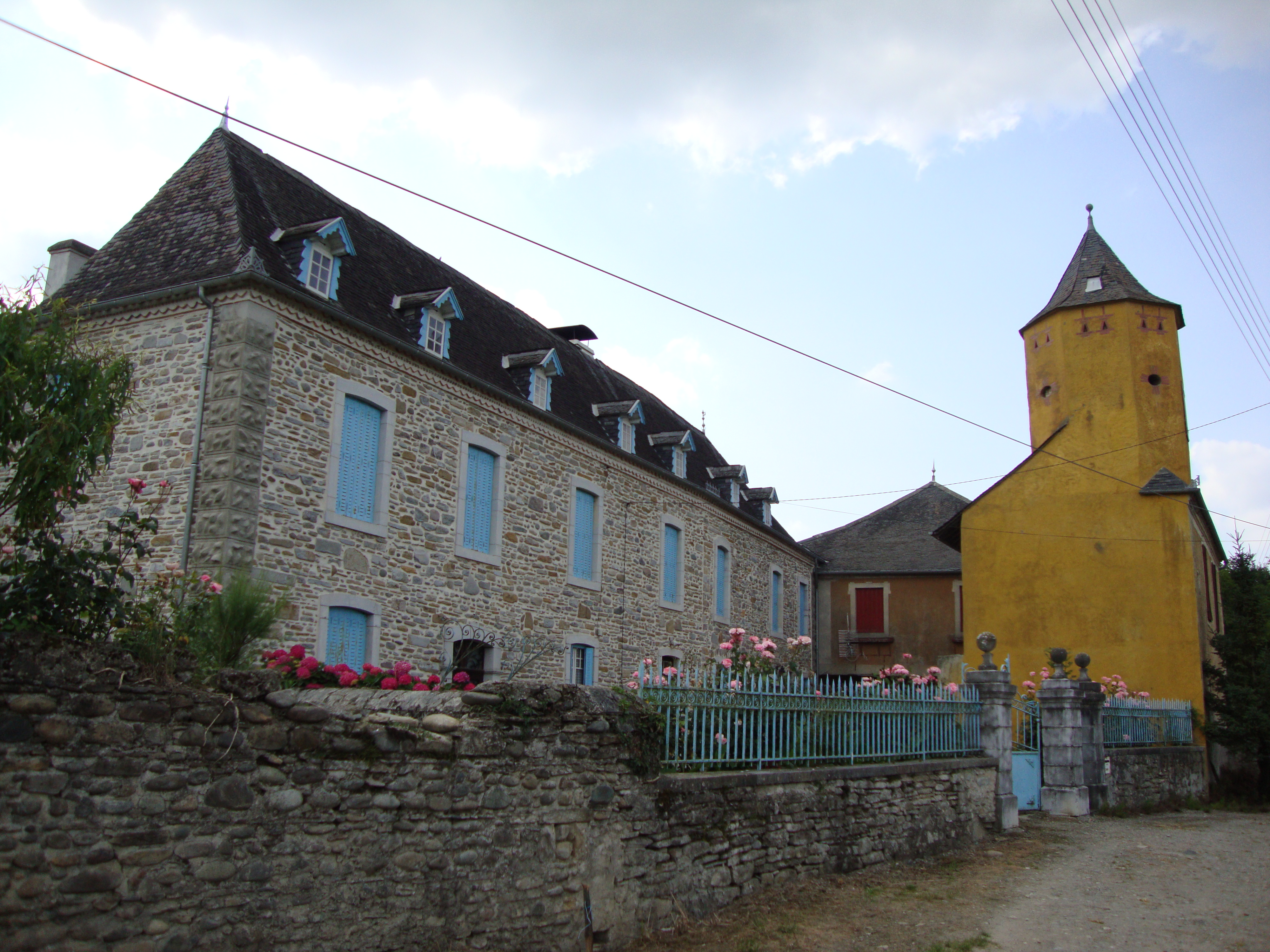 Poey d'Oloron (Pyr-Atl, Fr) farmhouse with dovecote tower